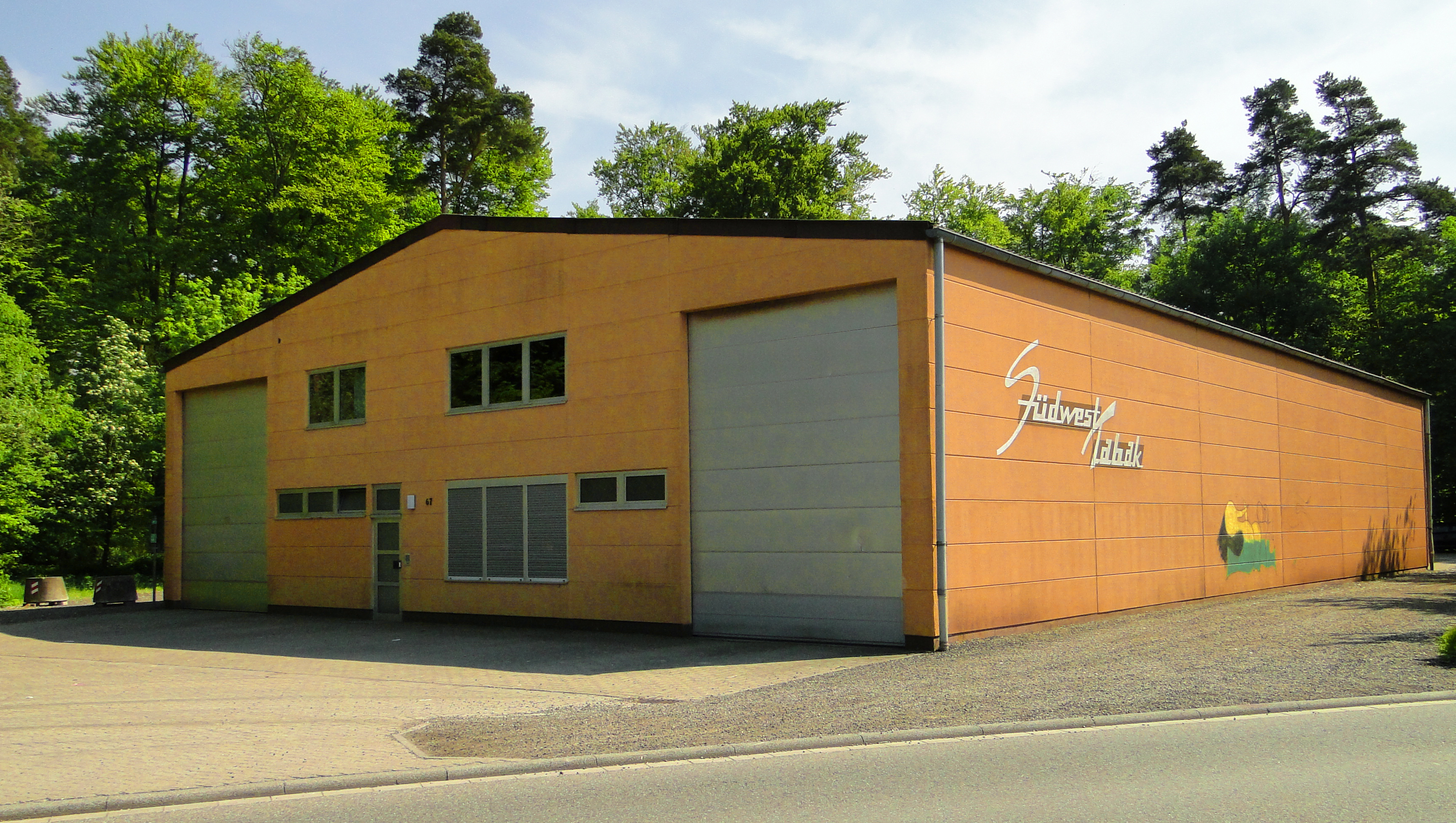 Tobacco weighing hall in Herxheim bei Landau (Germany). View of the northern gable wall.